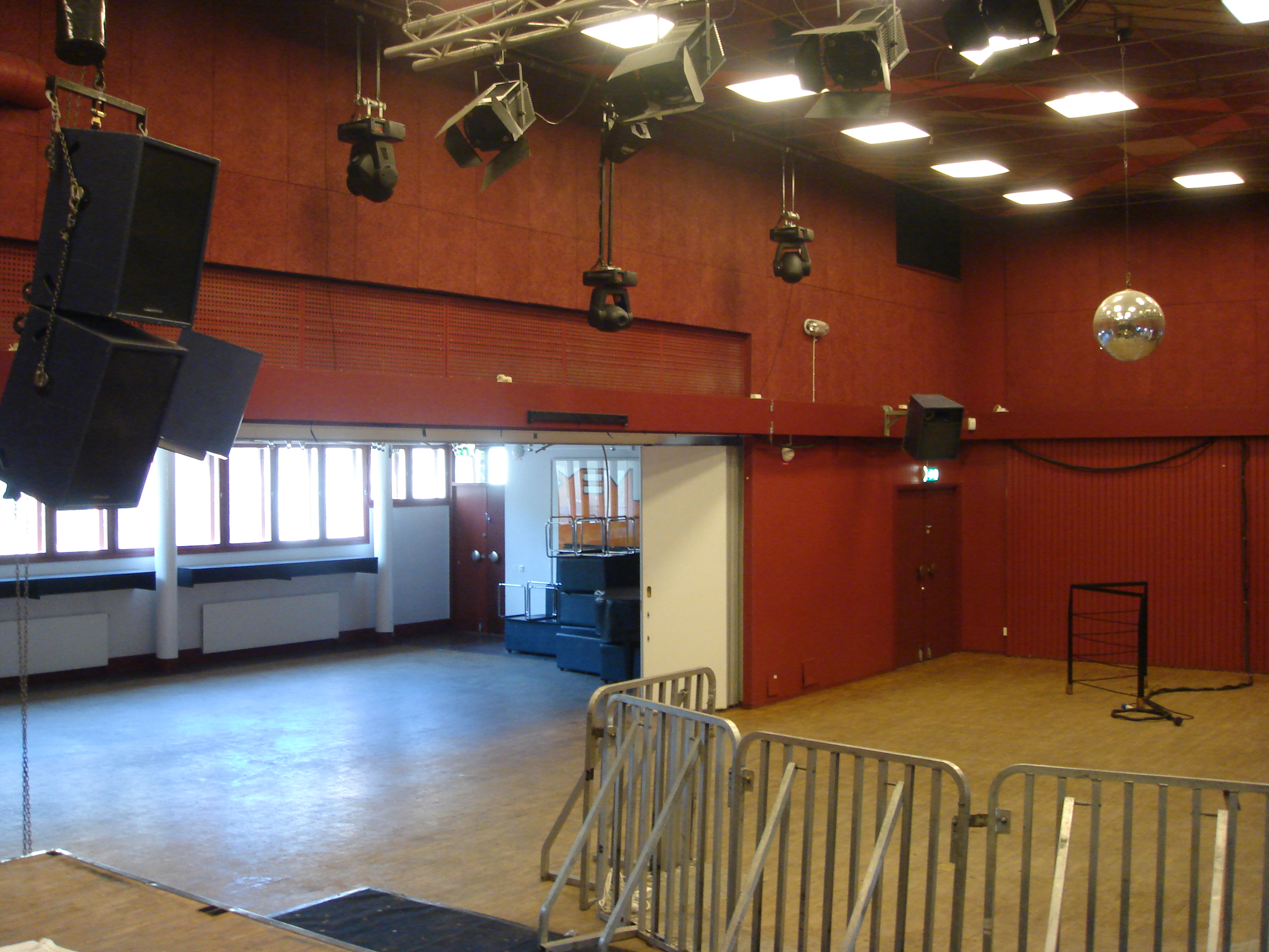 Photo of Nya festsalen at norrlands nation, Uppsala.